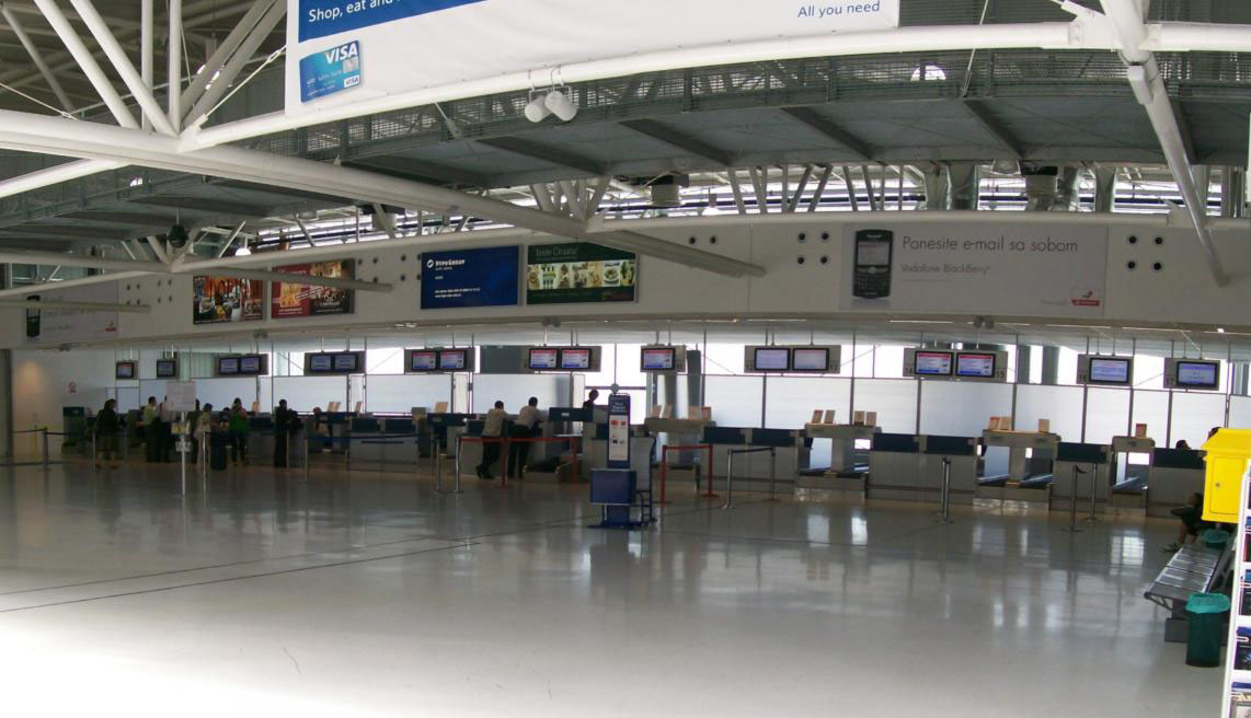 Dubrovnik Airport. Building inside